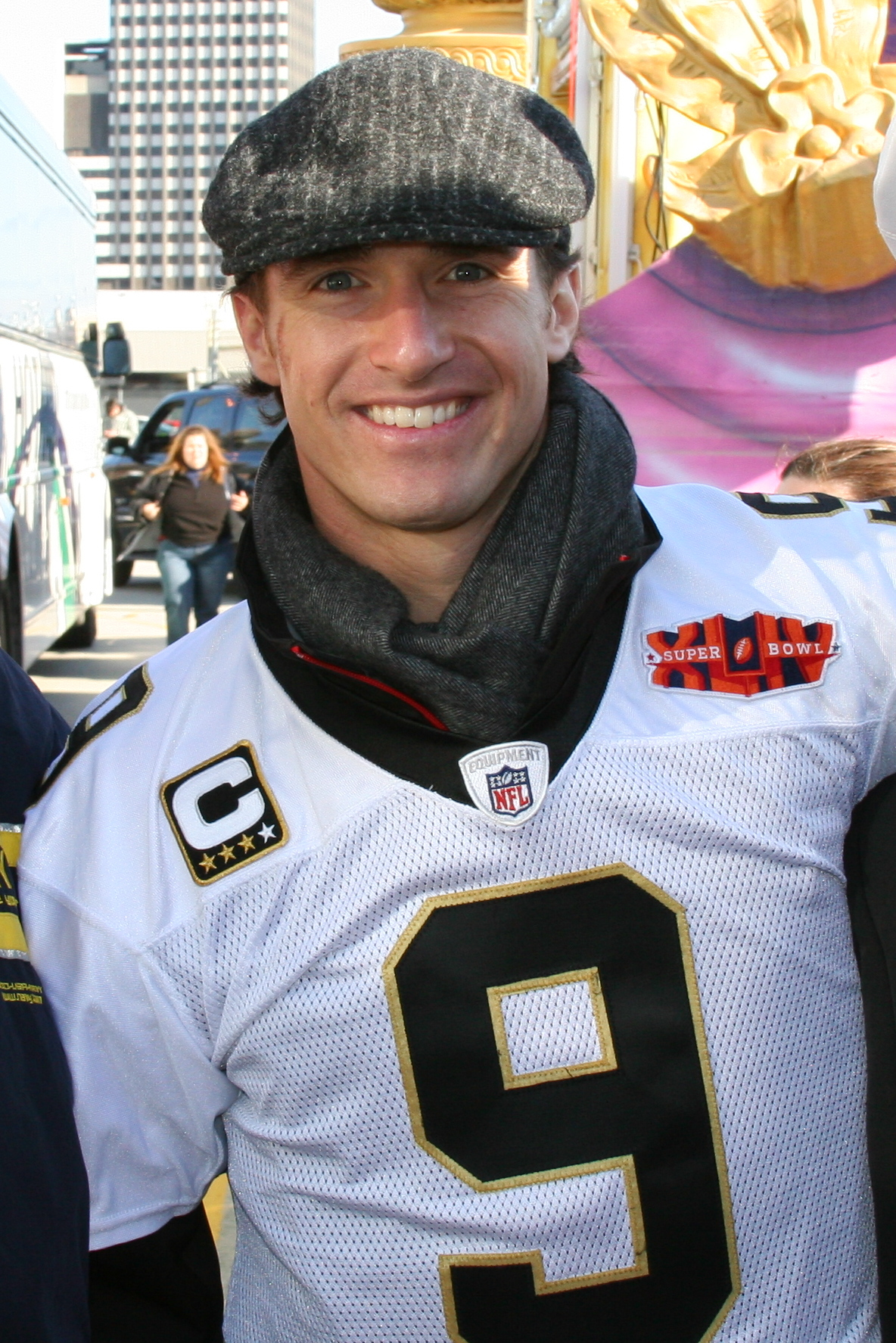 New Orleans Saints quarterback Drew Brees before the start of the New Orleans Saints Super Bowl XLIV parade.